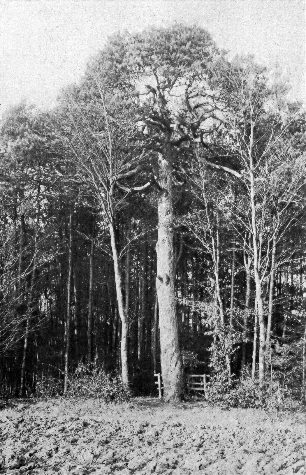 Famous pine-tree Erbenka, Kostelec nad Orlicí, Czech Republic. Tree falled in 1934.